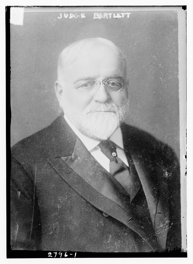 Bain News Service,, publisher. Judge Bartlett [between ca. 1910 and ca. 1915] 1 negative : glass ; 5 x 7 in. or smaller. Notes: Title from unverified data provided by the Bain News Service on the negatives or caption cards. Forms part of: George Grantham Bain Collection (Library of Congress). Format: Glass negatives. Repository: Library of Congress, Prints and Photographs Division, Washington, D.C. 20540 USA, General information about the Bain Collection is available at Persistent URL: Call Number: LC-B2- 2796-1